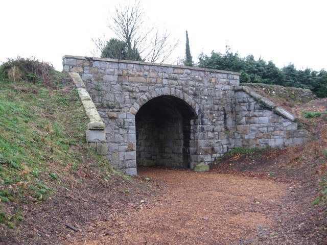 Old Railway Bridge at Tinahely Former DSE railway bridge on the former Woodenbridge Junction to Shillelagh line at Tinahely. The bridge is now part of the Tinahely Railway Walk.